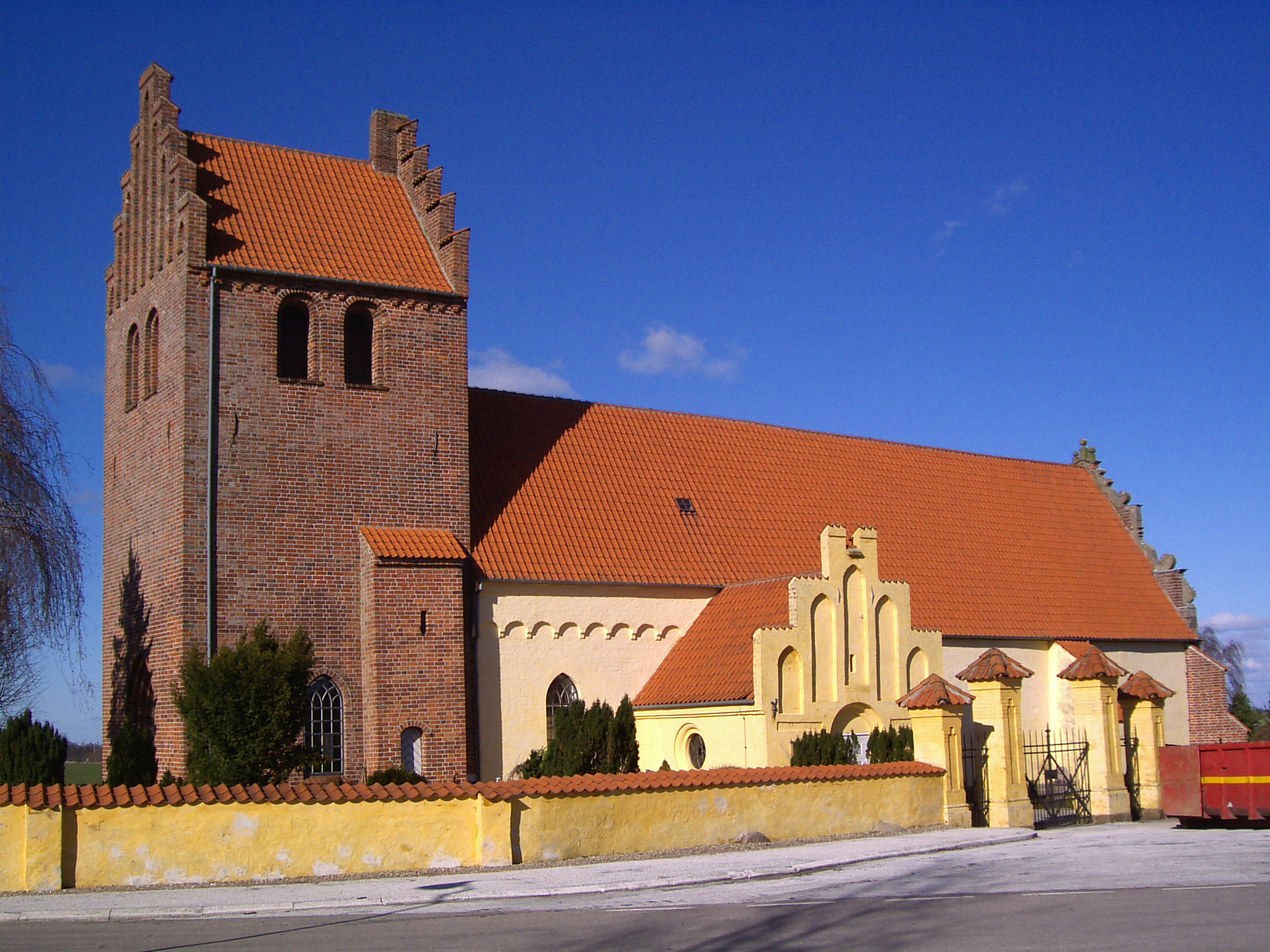 Valløby Church, Valløby parish, Municipality of Stevns, Region Sealand, Denmark.